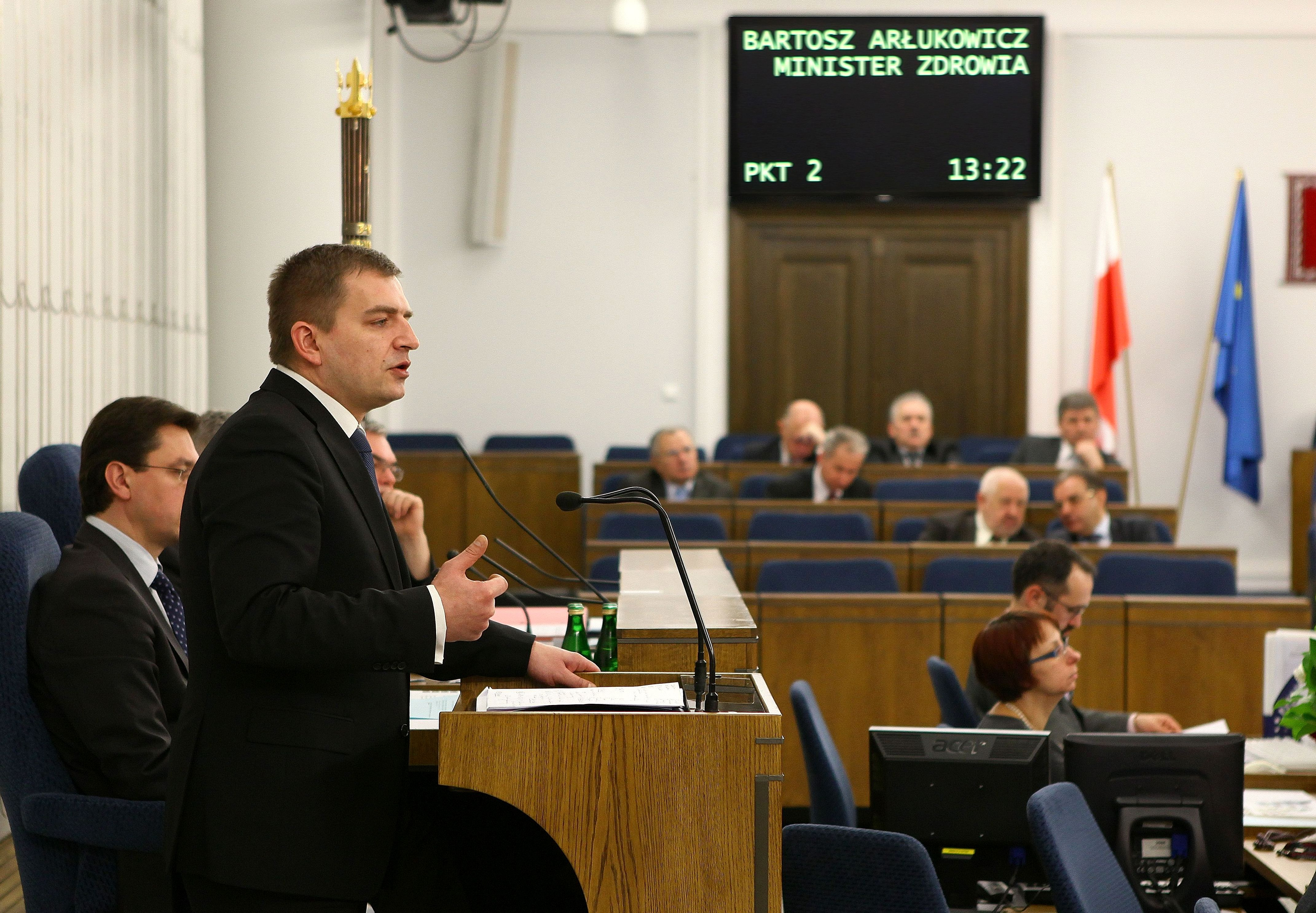 Minister of Health Bartosz Arłukowicz. 4th sitting of the Polish Senate